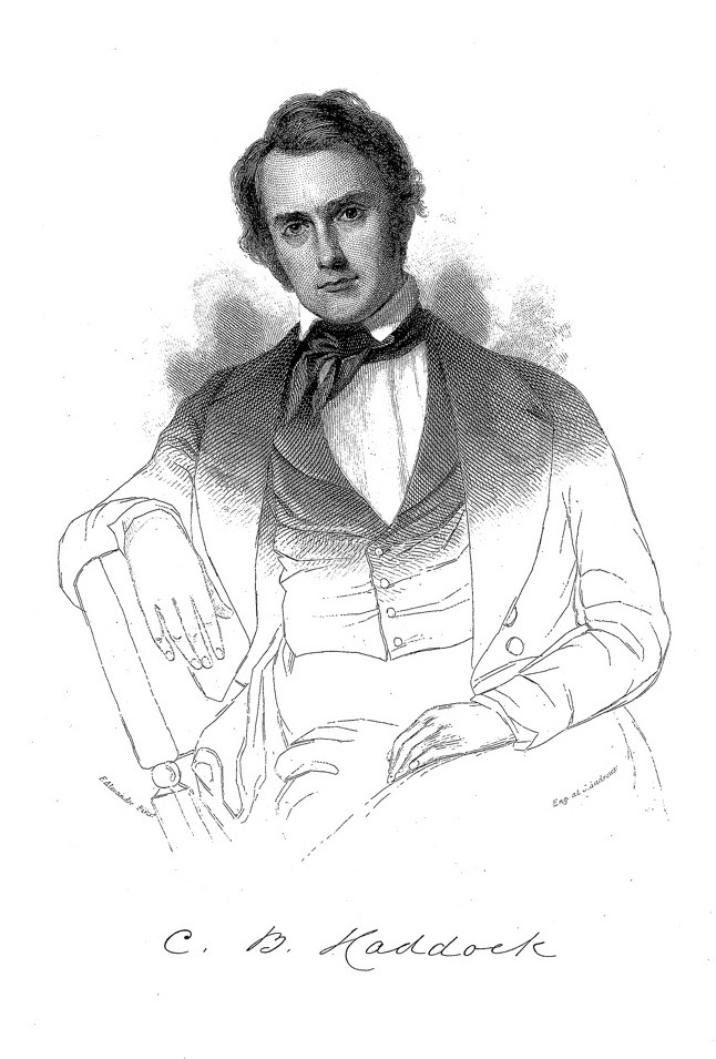 engraved portrait of Charles Brickett Haddock (1796-1861), educator, clergyman, civil servant